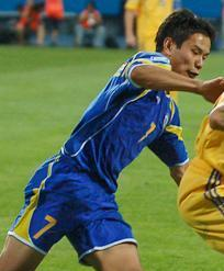 Tanat Nusserbayev